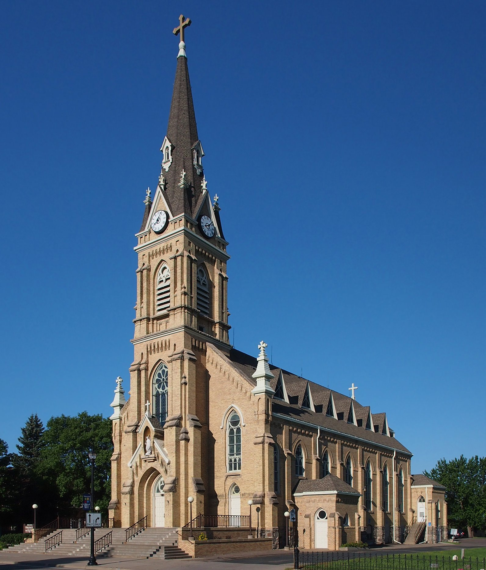 Church of St. Michael, St. Michael, Minnesota, USA. Viewed from the northeast.